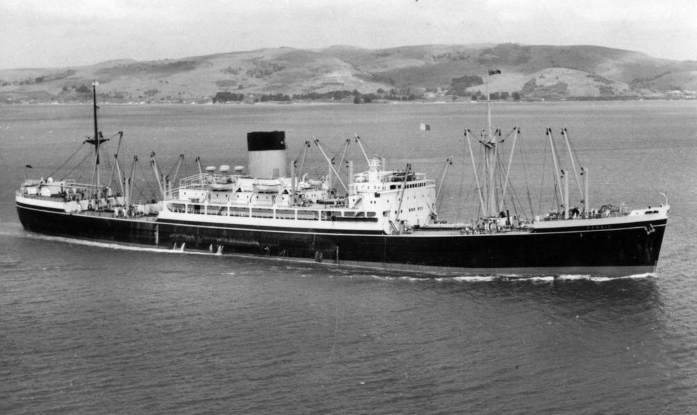 The cargo ship Persic was built 1949 by Cammell, Laird & Co Ltd, Birkenhead. Yard no. 1201 and operated by Shaw Savill & Albion Co Ltd, London. Port of registry: Southampton.